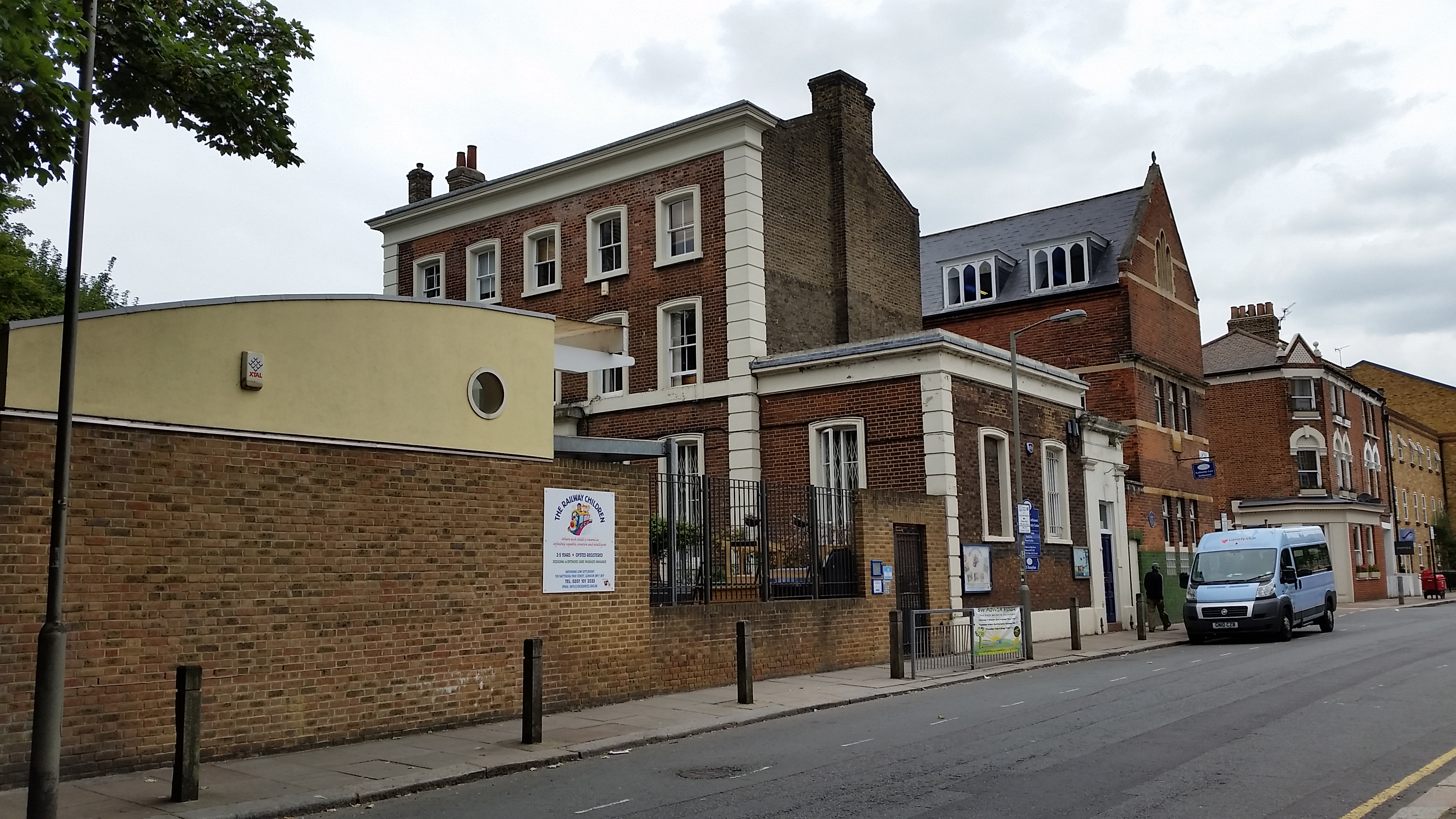 Katherine Low Settlement in Battersea, SW London, United Kingdom